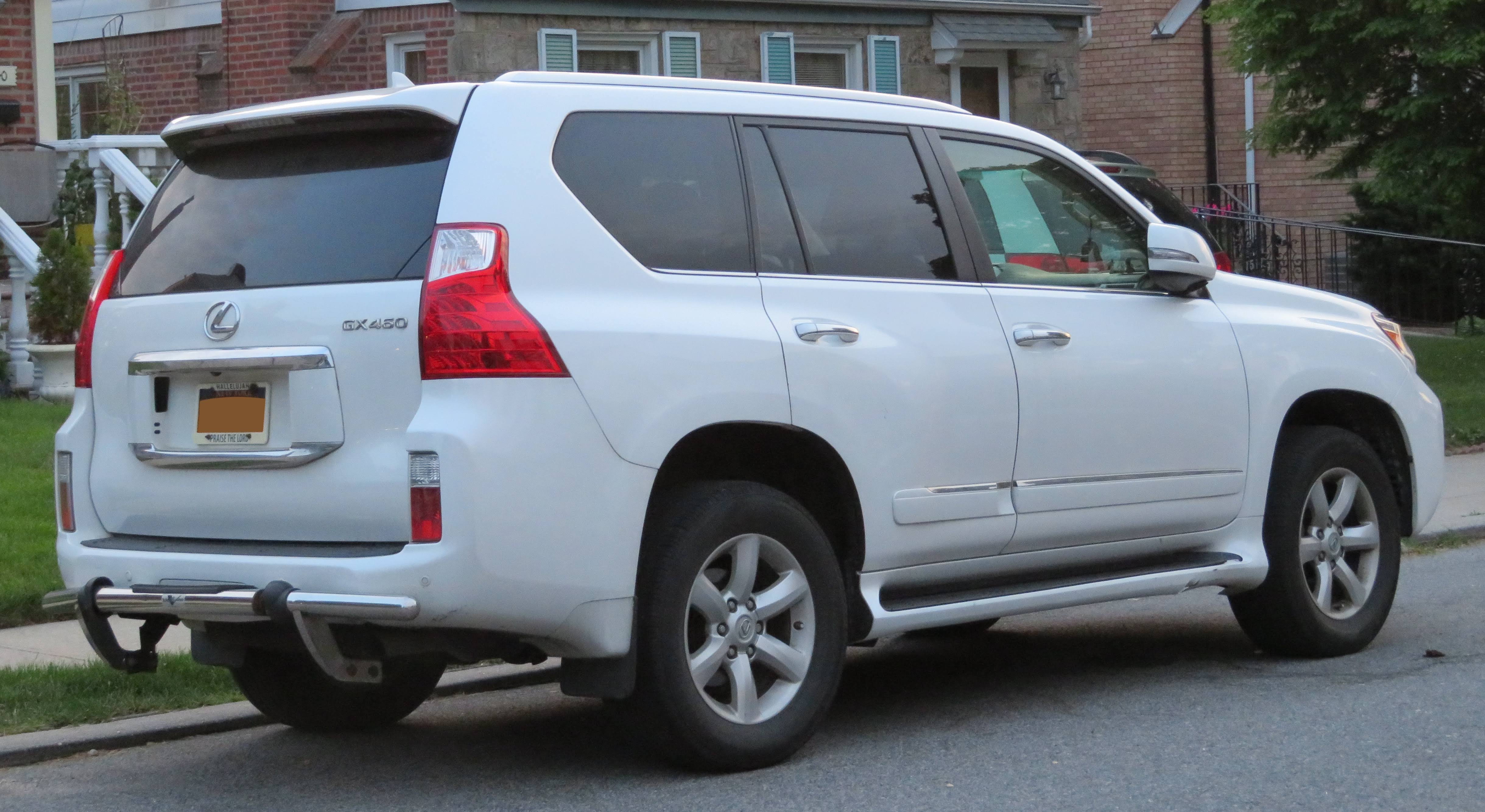 Photographed in Queens, New York